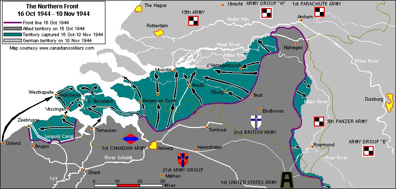 This low-res 4 colour map is donated to wikipedia by the author and webmaster of A full colour version can be found at that website.